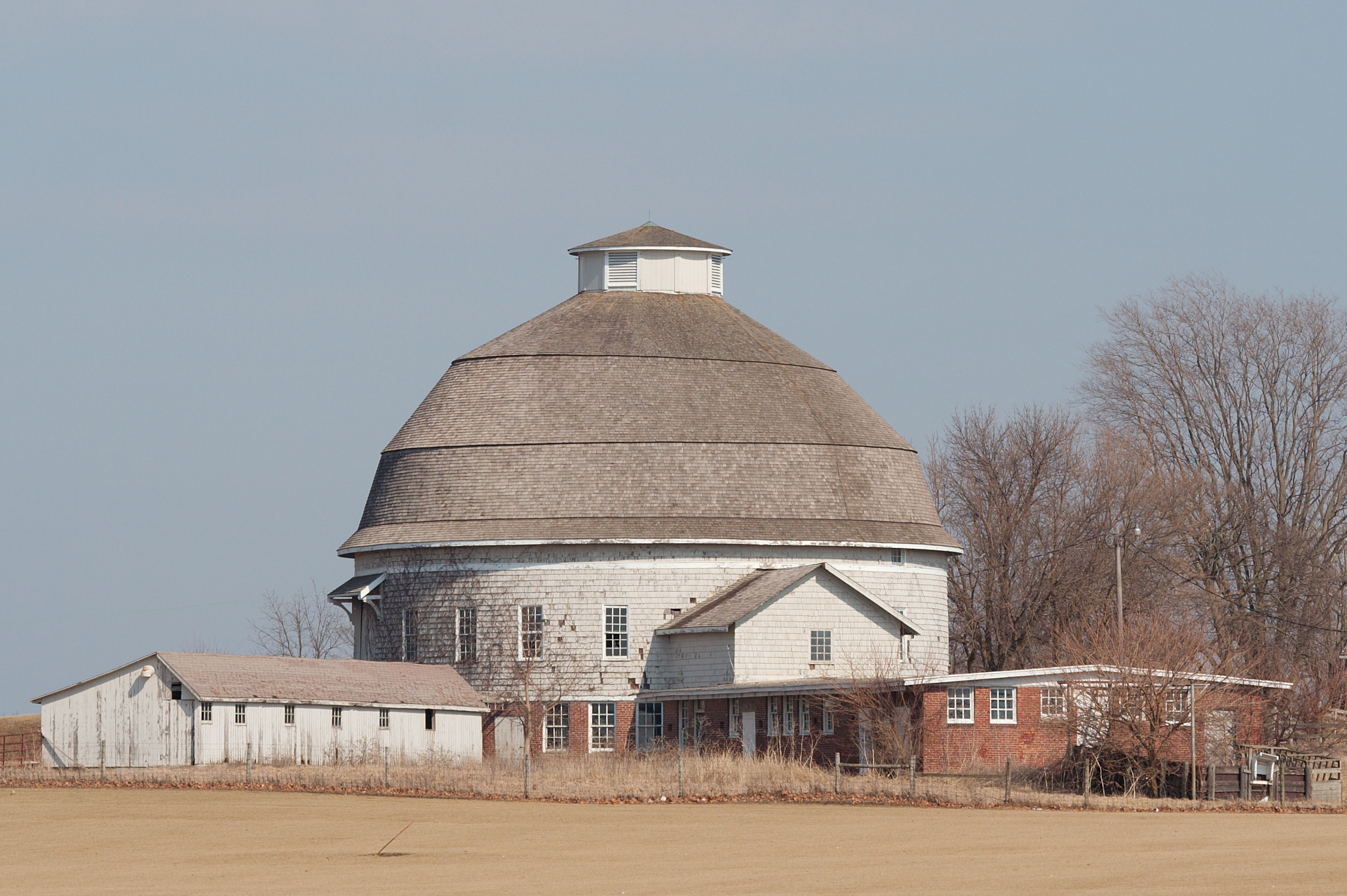 University of Illinois Experimental Dairy Farm Historic District, showing cow shed, and Barn #3 (built in 1912), Urbana, IL